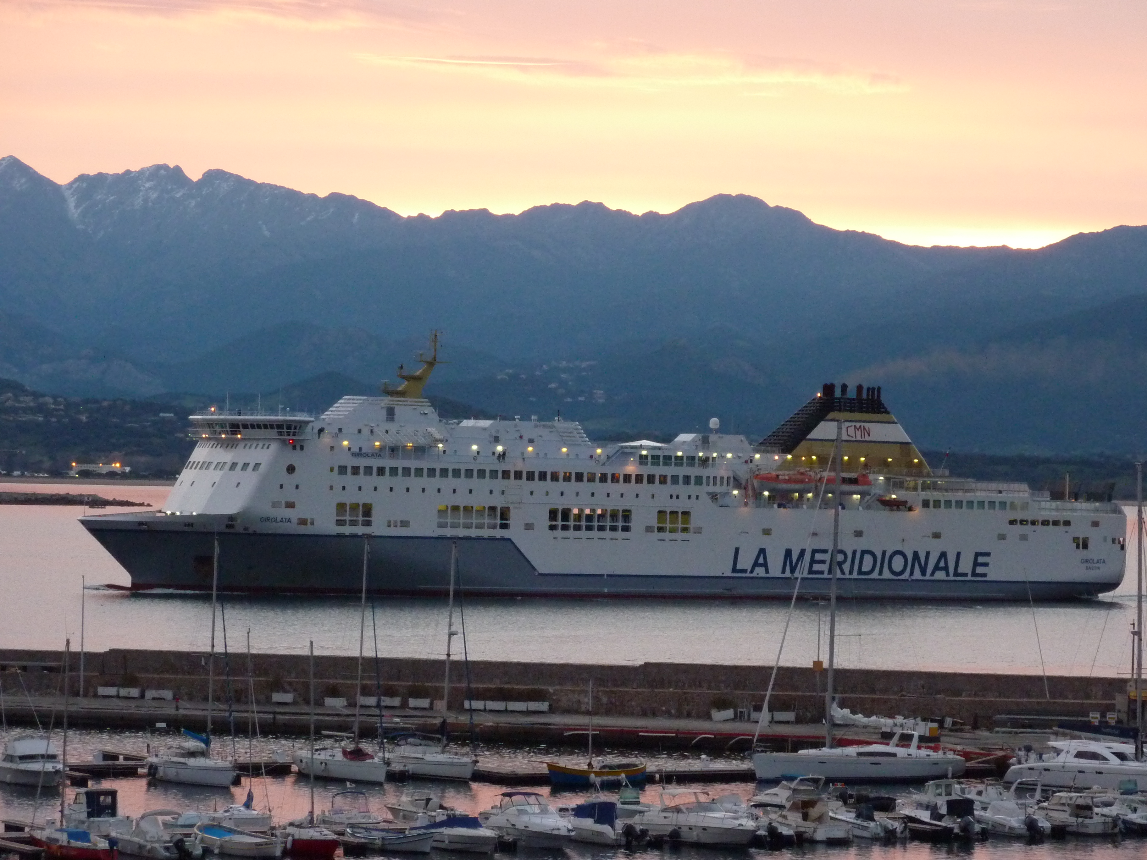 Girolata in Corsica.